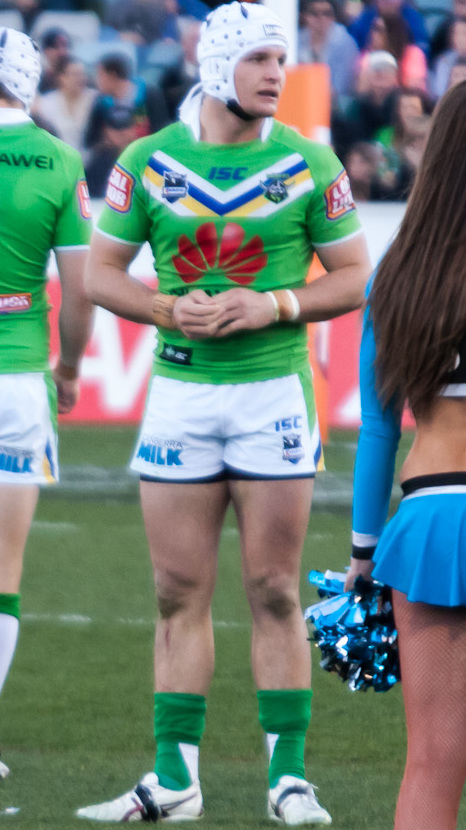 Jarrod Croker